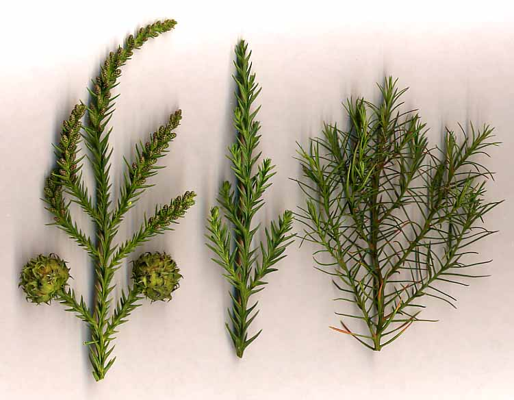 Foliage of Sugi (Cryptomeria japonica). Photo by myself, autumn 2003. Approx natural size. (left) shoot with mature cones, and immature male cones at top; (centre) adult foliage shoot; (right) juvenile foliage shoot